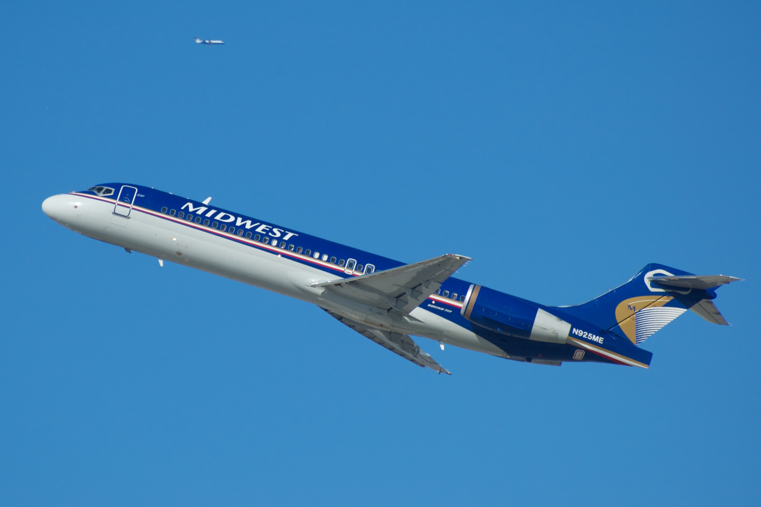 Departure, LAX, 2007. With United Express RJ. Now with Volotea.